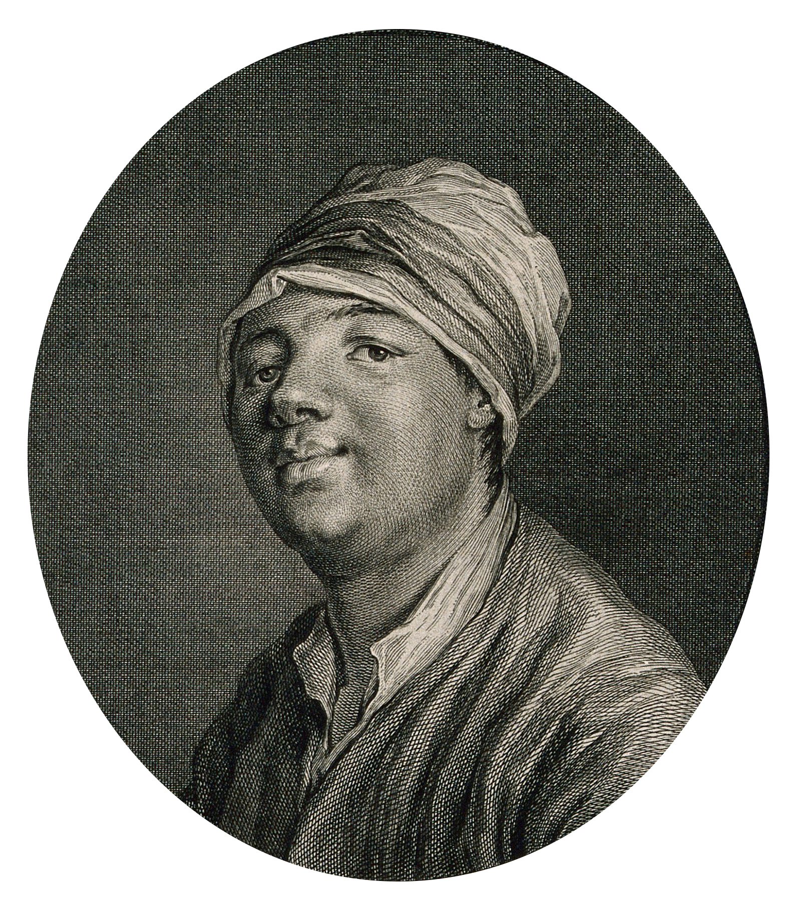 Portrait of Jean-Baptiste Chappe d'Auteroche. This is a derivative work of File:Jean Chappé d'Auteroche. Line engraving by J. B. Tilliard, 1 Wellcome V0001066.jpg with cropping.